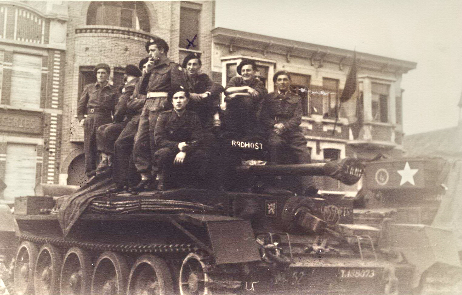 Czechoslovak soldiers in the end of the War in La Panne (Belgium) near Dunkerque in 1945